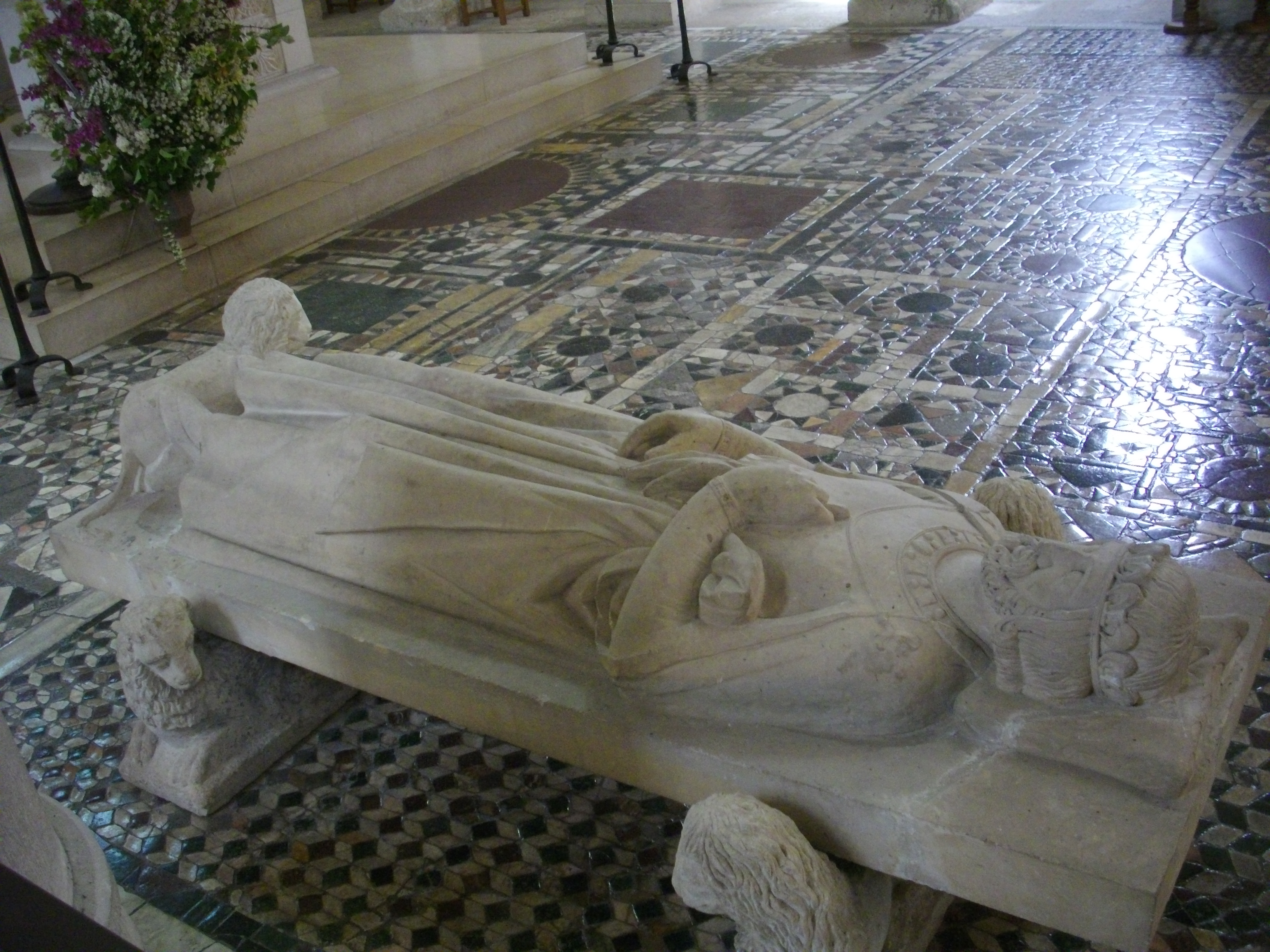 Saint Benedictus abbey church of Saint-Benoît-sur-Loire (Loiret, France) : effigie of Philippe I of France .